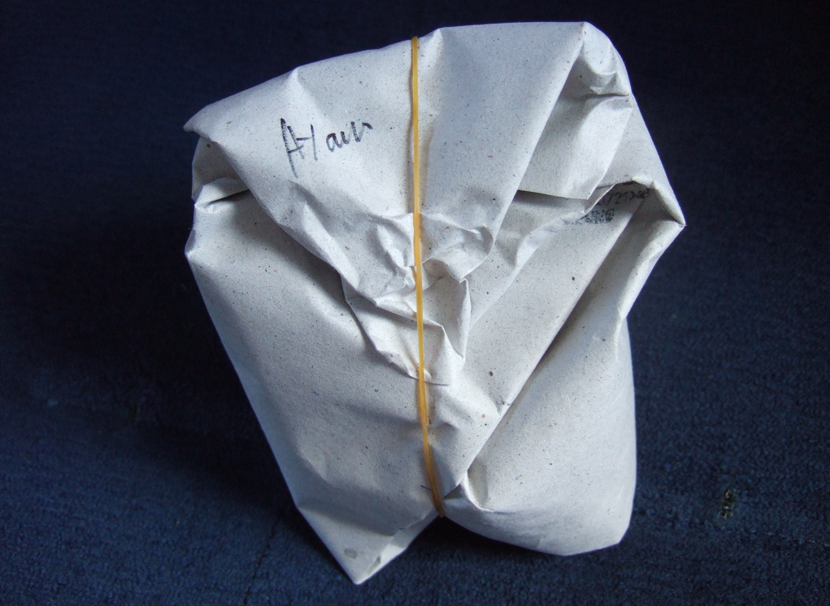 Take-out Nasi Padang